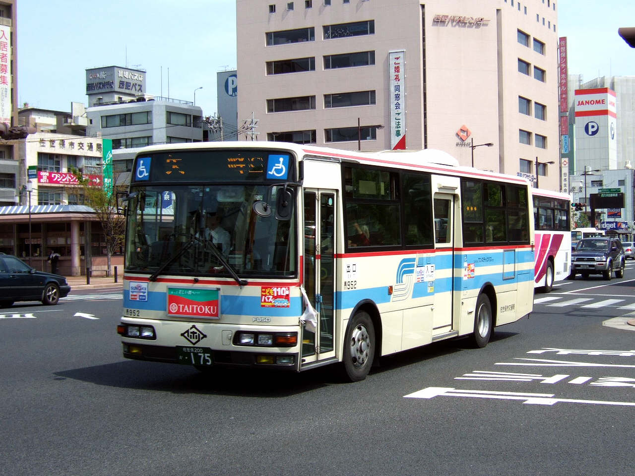 佐世保市交通局一般路線車・ワンステップ車（佐世保駅前にて）Sasebo City Bus at the Front of the Sasebo Station